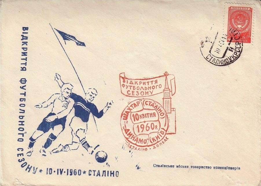 Shakhtyor Stalino v Dynamo Kiev 1960 10/04/60. Soviet Ukrainian cover. Opening day of the 1960 Soviet Top League season. The City of Donetsk was still known as Stalino at this time.